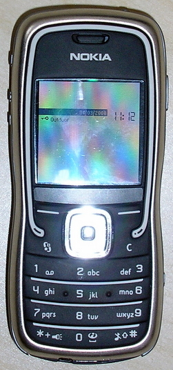 Photo of front of Nokia 5500, taken by Jamez654 on 04/03/05 Belongs in article Nokia 5500